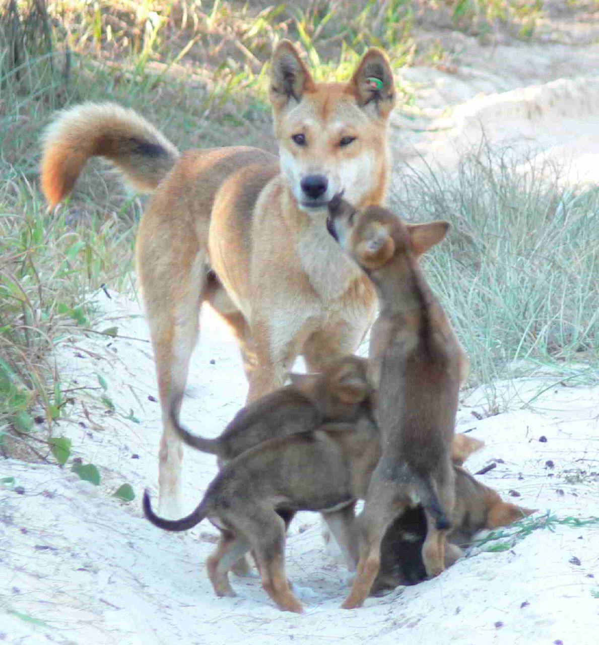 a male dingo with pups